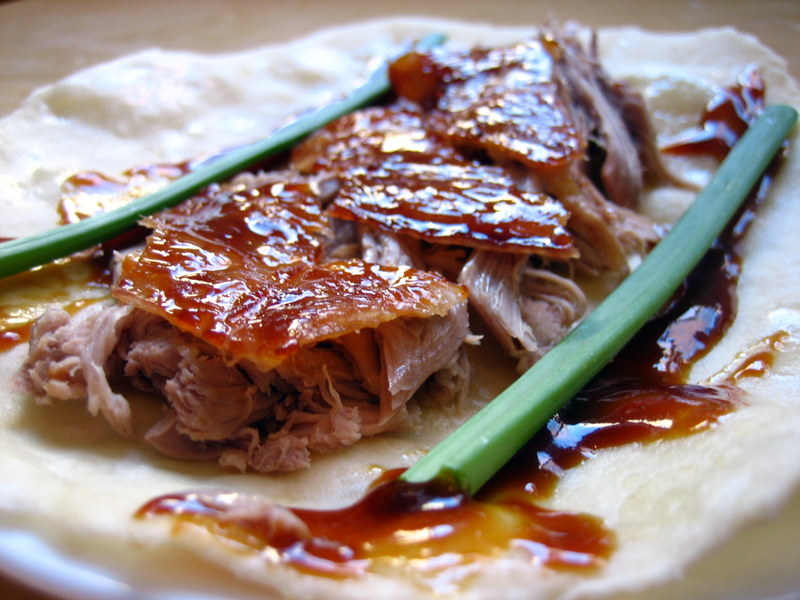 Making the Peking duck wrap